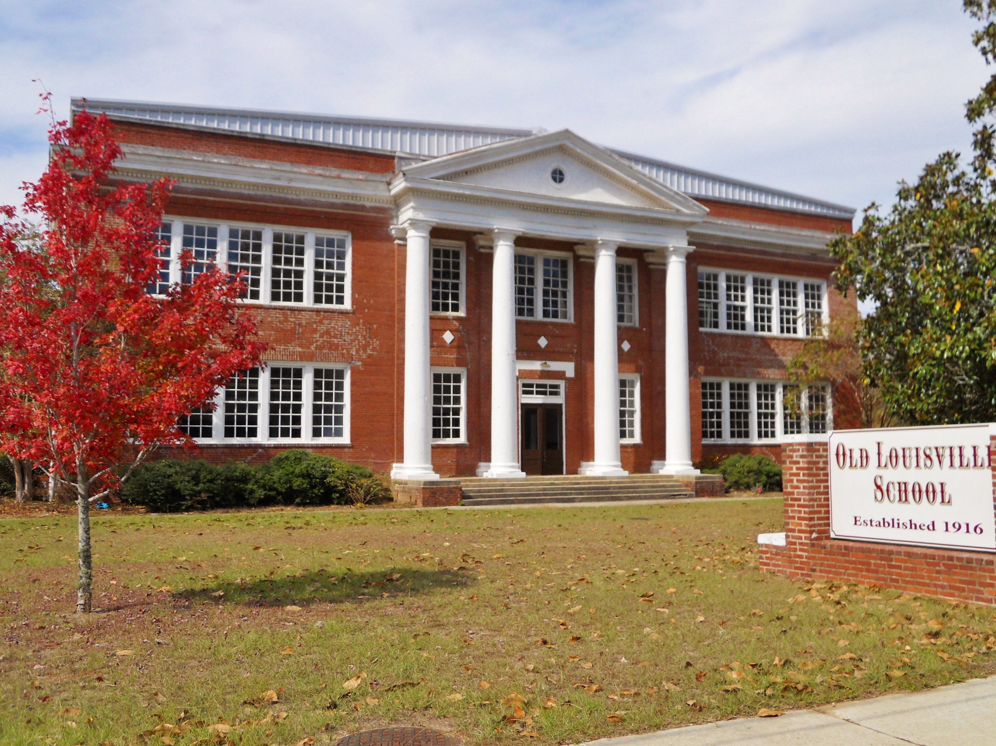 This is a photo of the Old Louisville School in Louisville, Alabama.